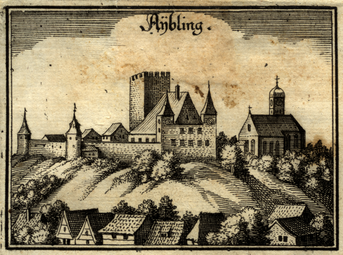 Hofberg of Bad Aibling on an ancient engraving by Merian